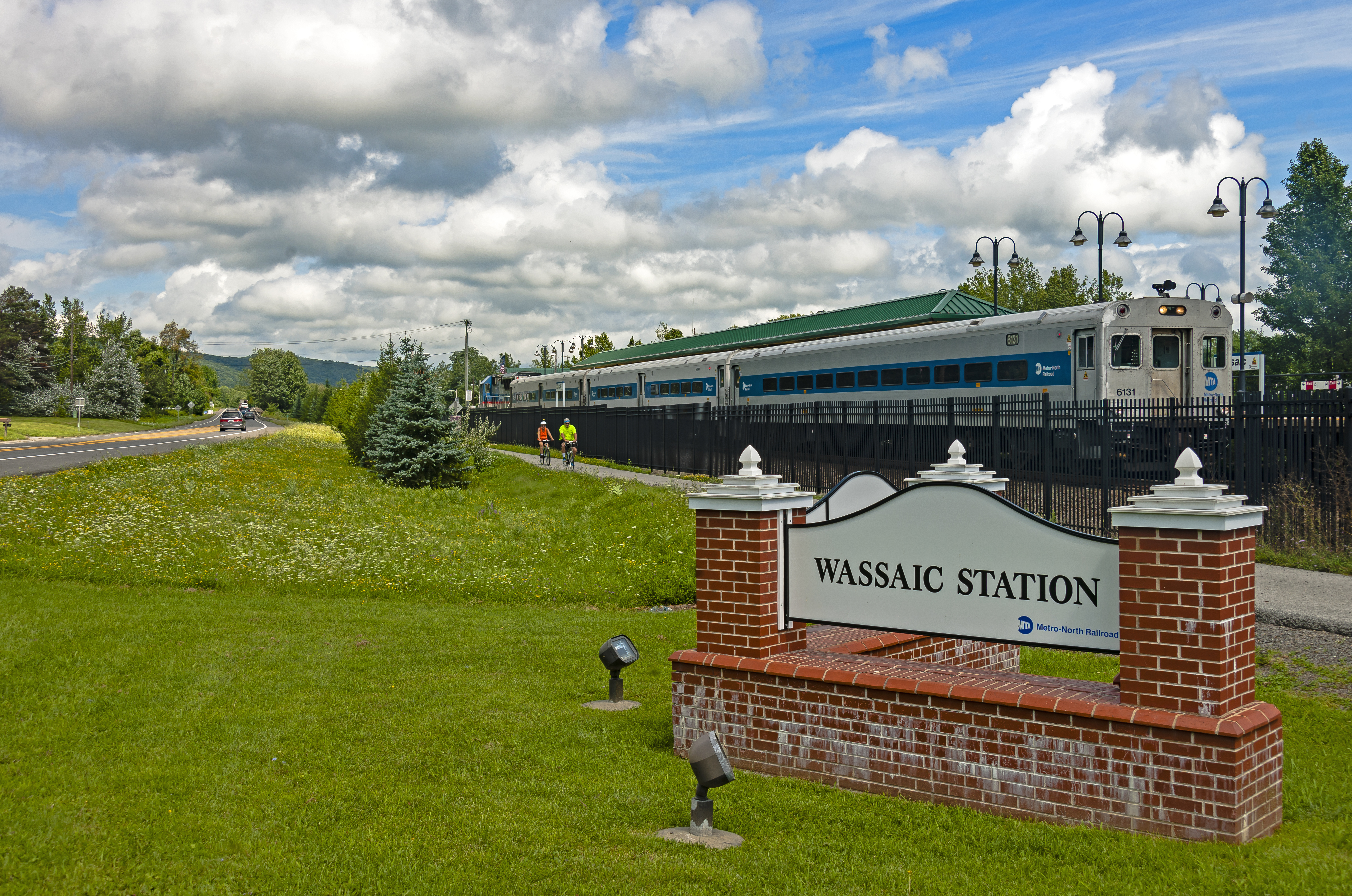 The Wassaic station at the north end of Metro-North Railroad's Harlem Line. Nearby are bicyclists on the Harlem Valley Rail Trail. The highway at left is NY 22/343